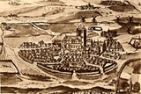 A map of Lund from the 1580's